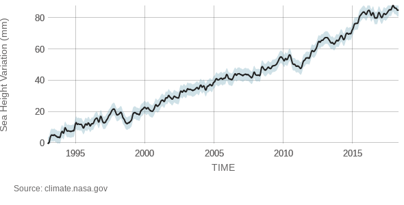 Sea level rise is caused primarily by two factors related to global warming: the added water from melting ice sheets and glaciers and the expansion of seawater as it warms. The first graph tracks the change in sea level since 1993 as observed by satellites.